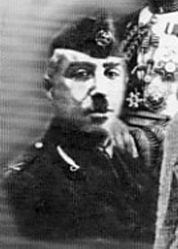 Bakr Sidqi (1886-1937), former Prime Minister of Iraq.